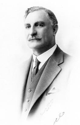 This is a photograph of Harry Boan (1860–1941), Western Australian merchant.